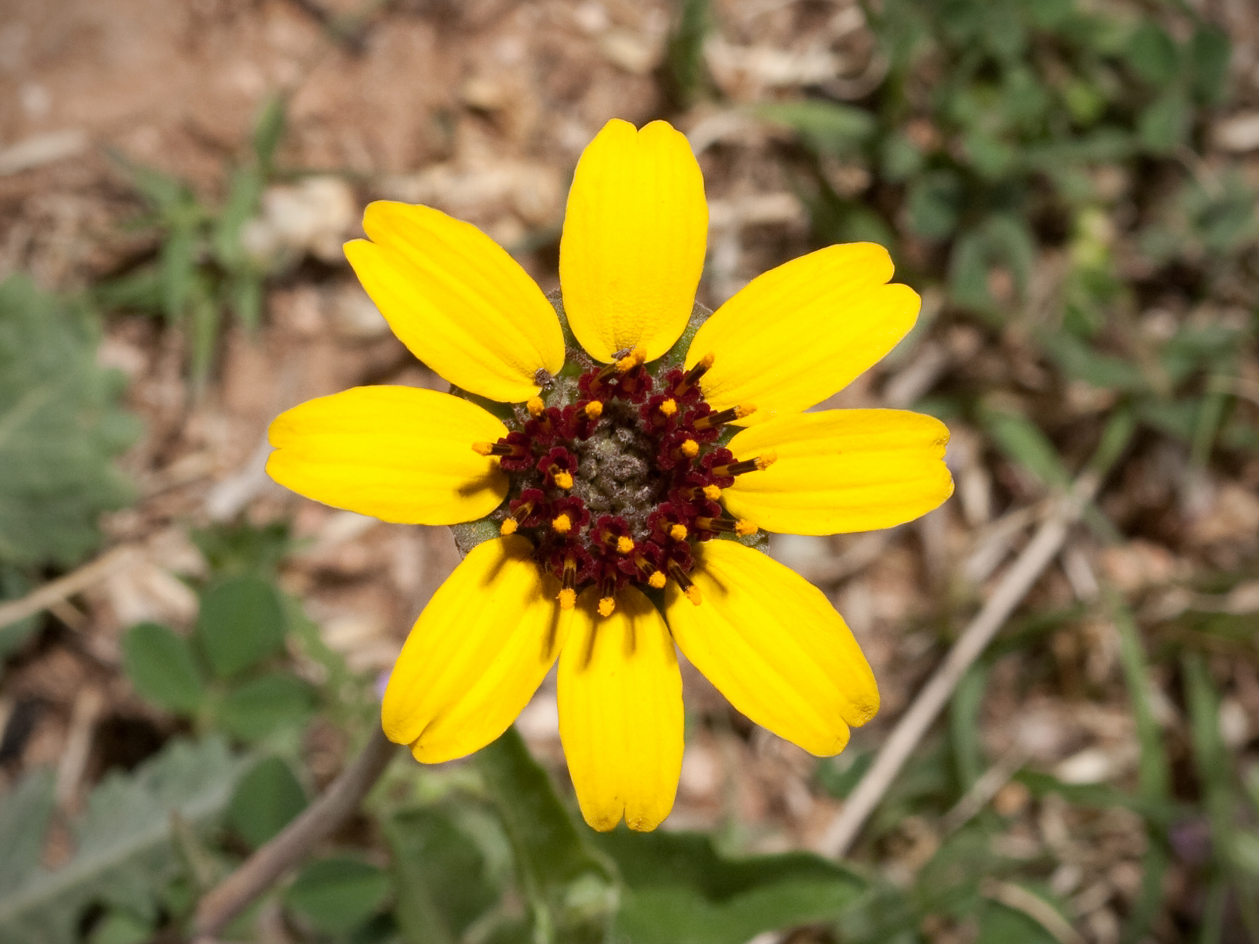 Chocolate daisy (Berlandiera lyrata)